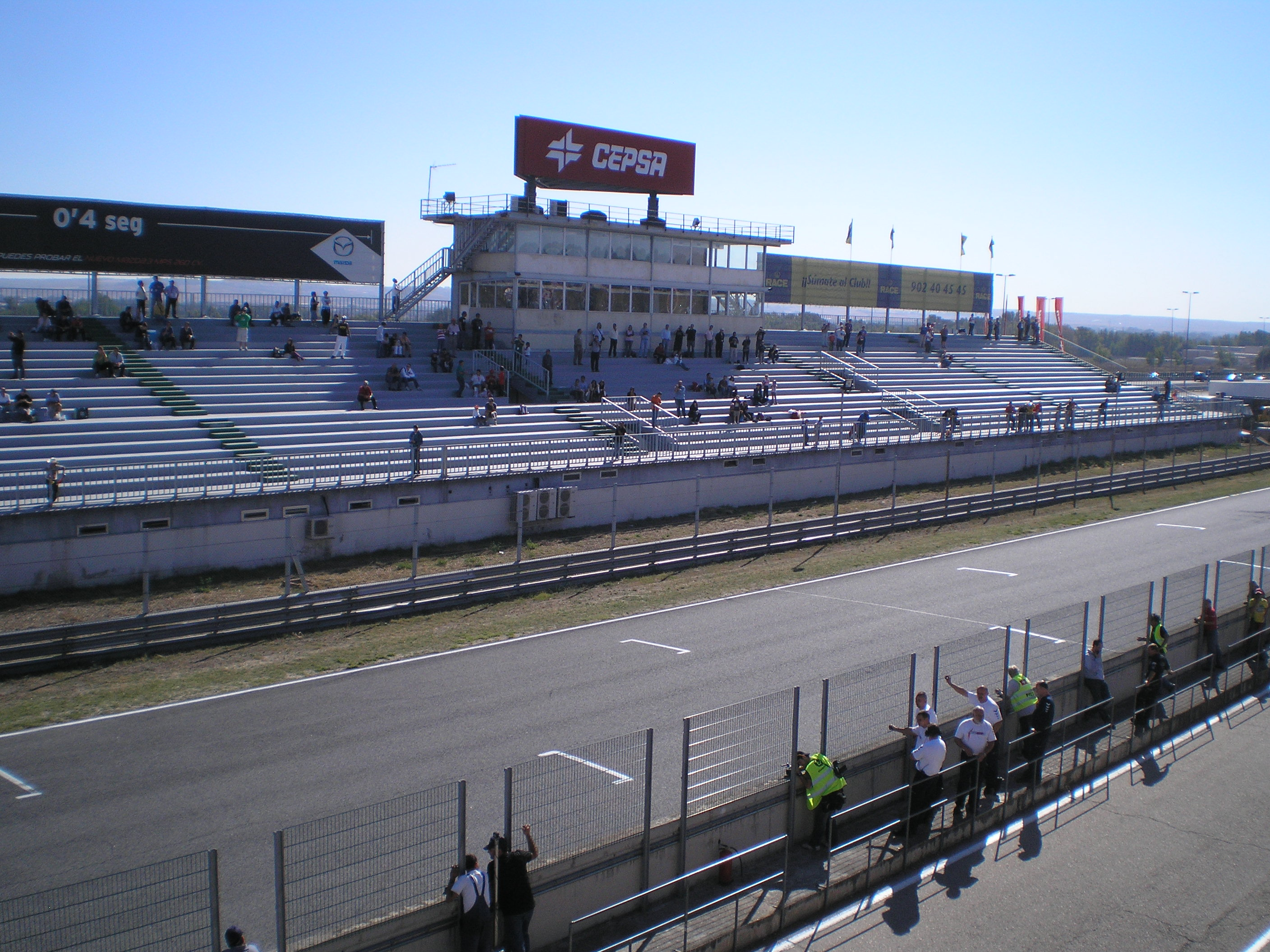 Jarama circuit, San Sebastián de los Reyes, Spain.